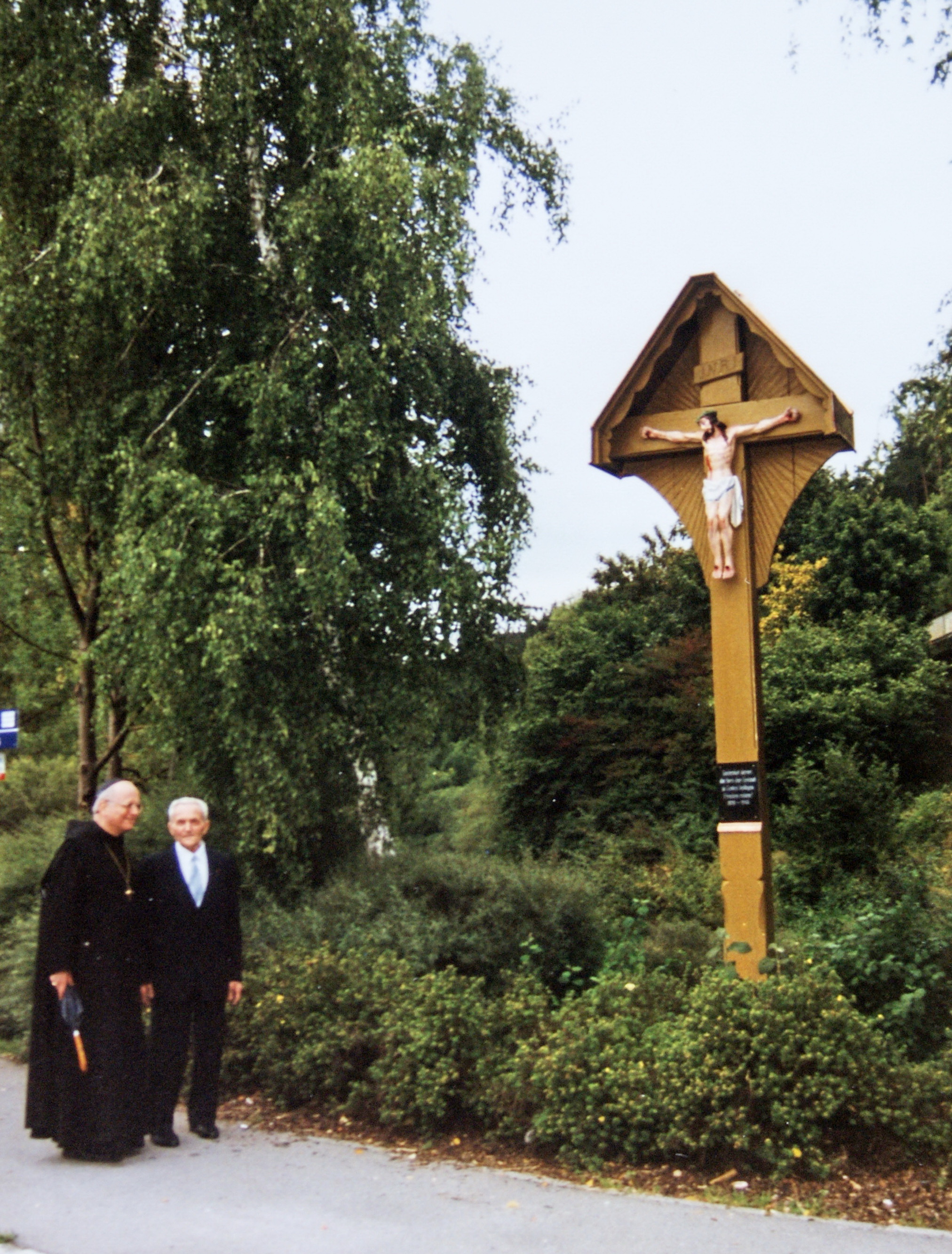 Veringenstadt Sägekreuz. Gestiftet 1946. Restauriert 1998. Im Bild: Hieronymus Nitz, Erzabt von Kloster Beuron und Bürgermeister a. D. Stefan Fink.